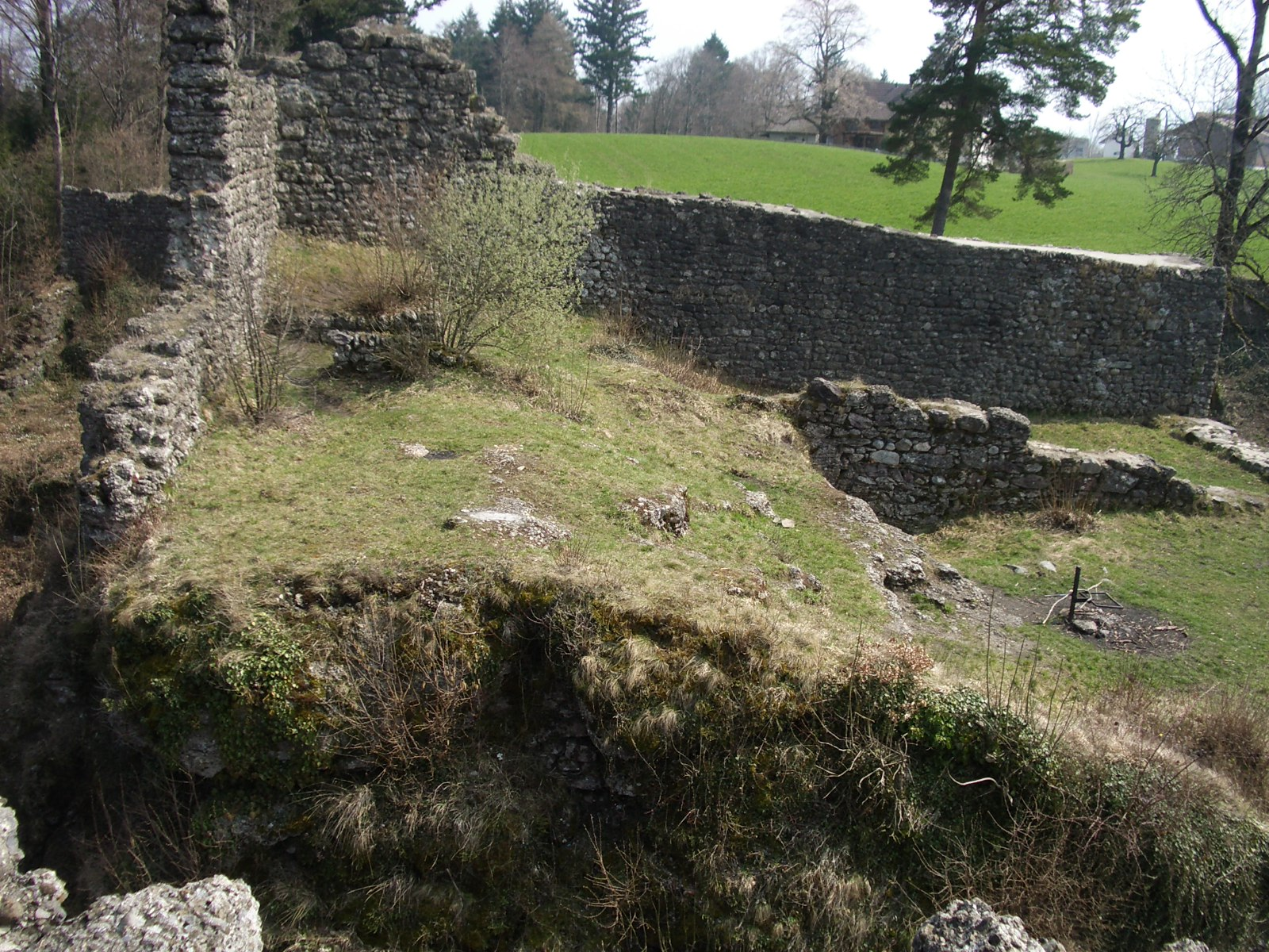 Alt-Wädenswil ZH, Switzerland